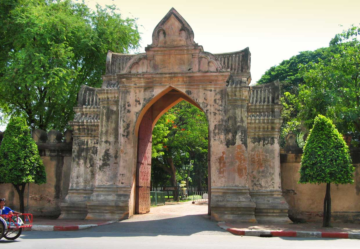 Phra Narai Ratcha Nivet, palace of King Narai, Lopburi, Thailand